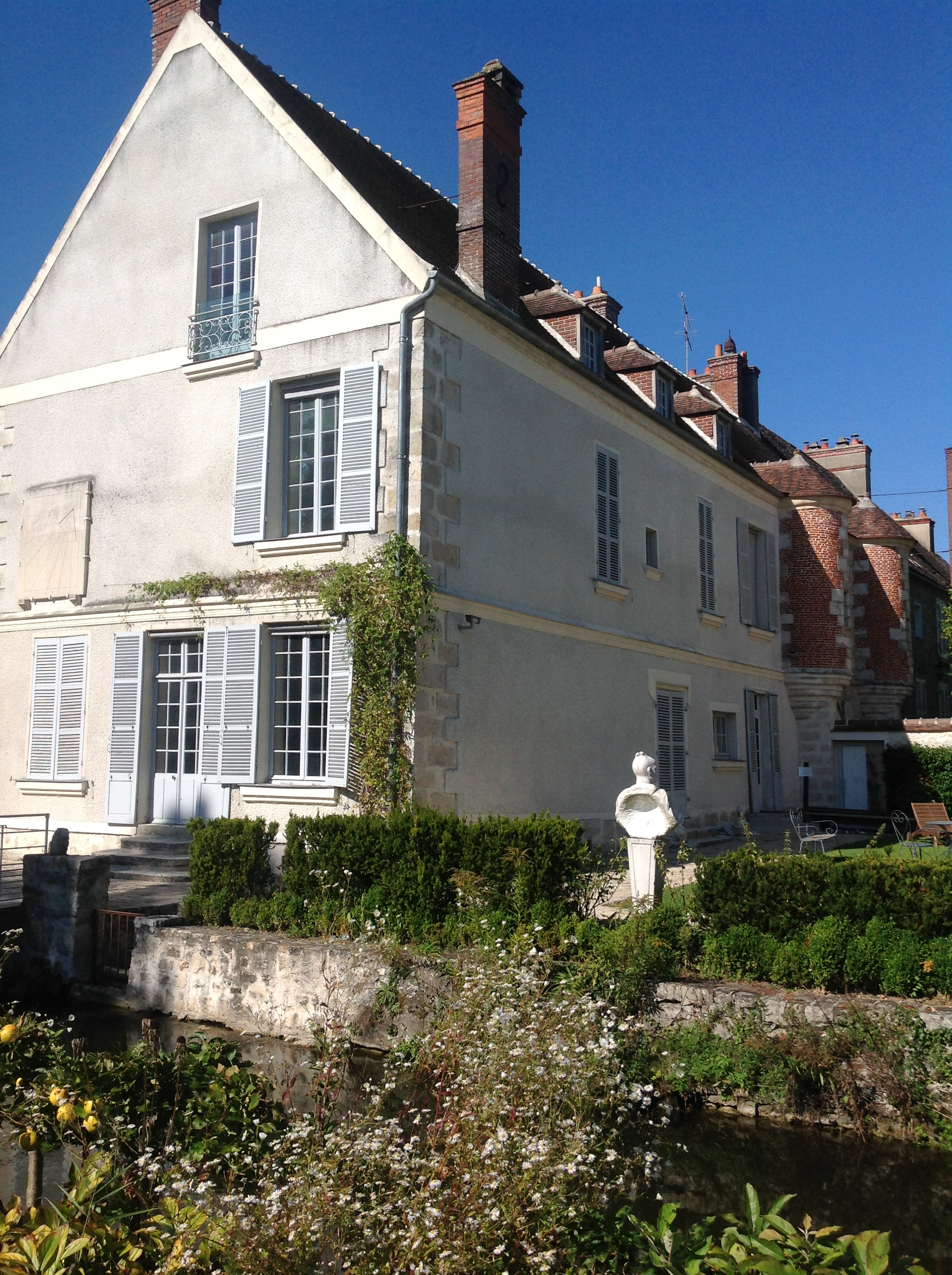 Exterior of the Jean Cocteau House in Milly-la-Foret